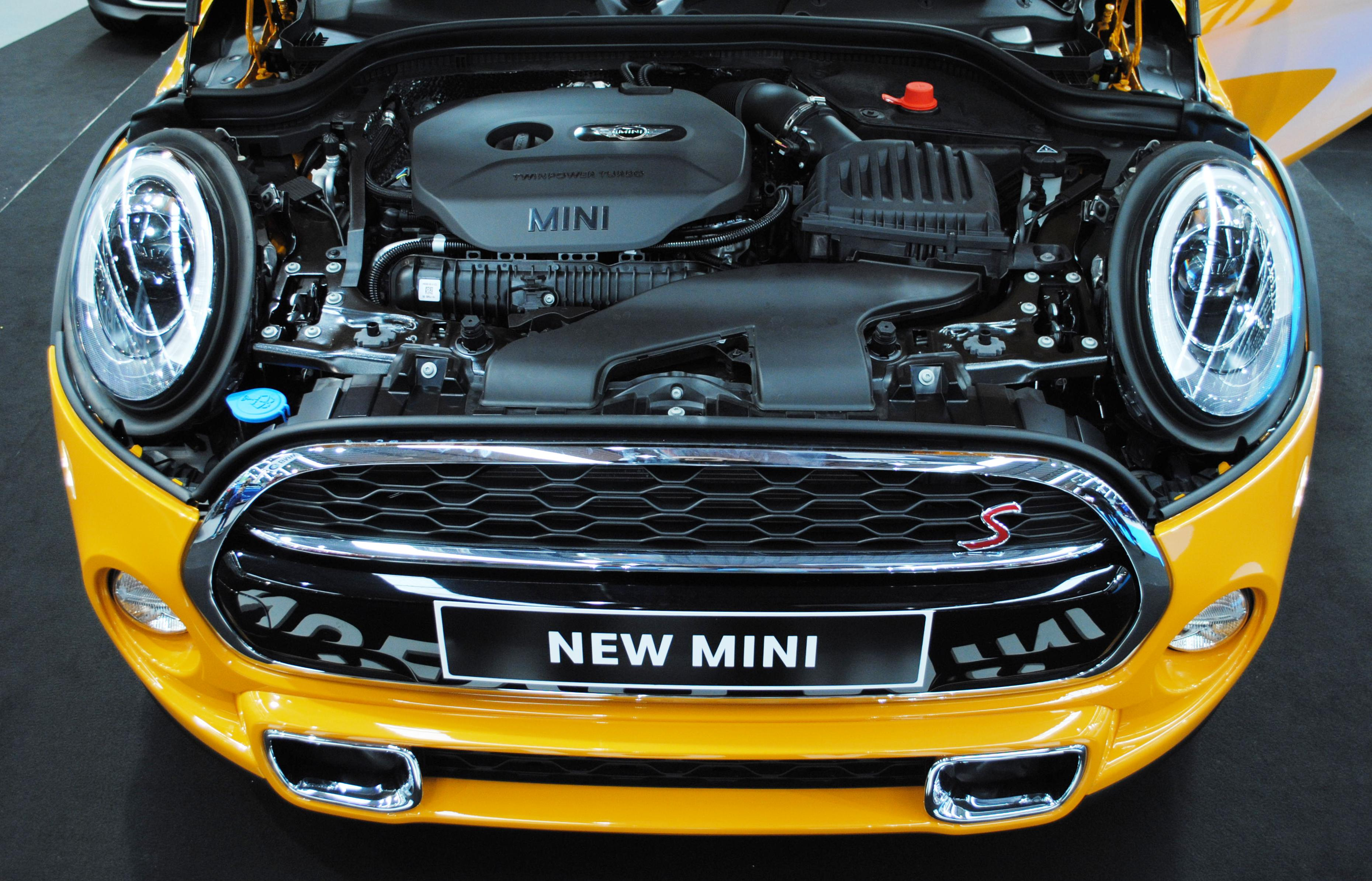 New Mini, mechanics, IFEVI, 2014.JPG